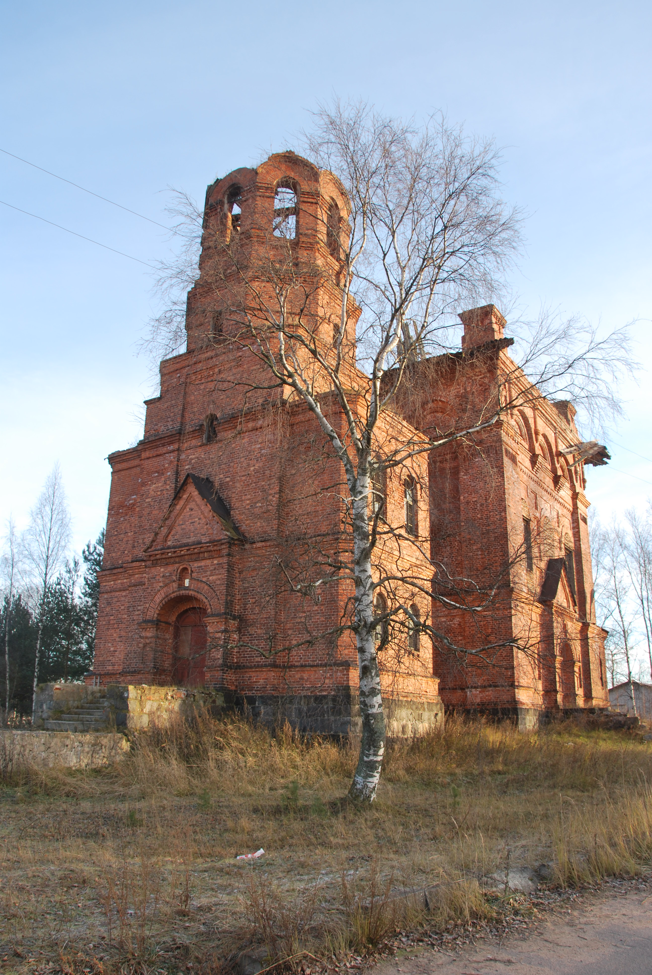 Church in Morye hamlet